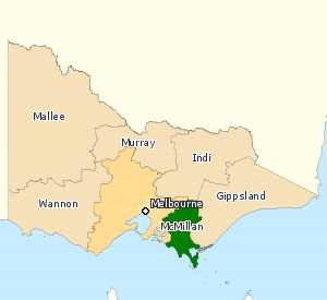 Incorporates or developed using Administrative Boundaries ©PSMA Australia Limited licensed by the Commonwealth of Australia under Creative Commons Attribution 4.0 International licence (CC BY 4.0). Derived from State and Territory Boundaries from the Australian Bureau of Statistics under Creative Commons Attribution 2.5 Australia license (CC BY 2.5 AU)